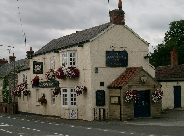 The Rockingham Arms. Towton's pub on the A162 south of Tadcaster. Parts of the building date back to 1650.